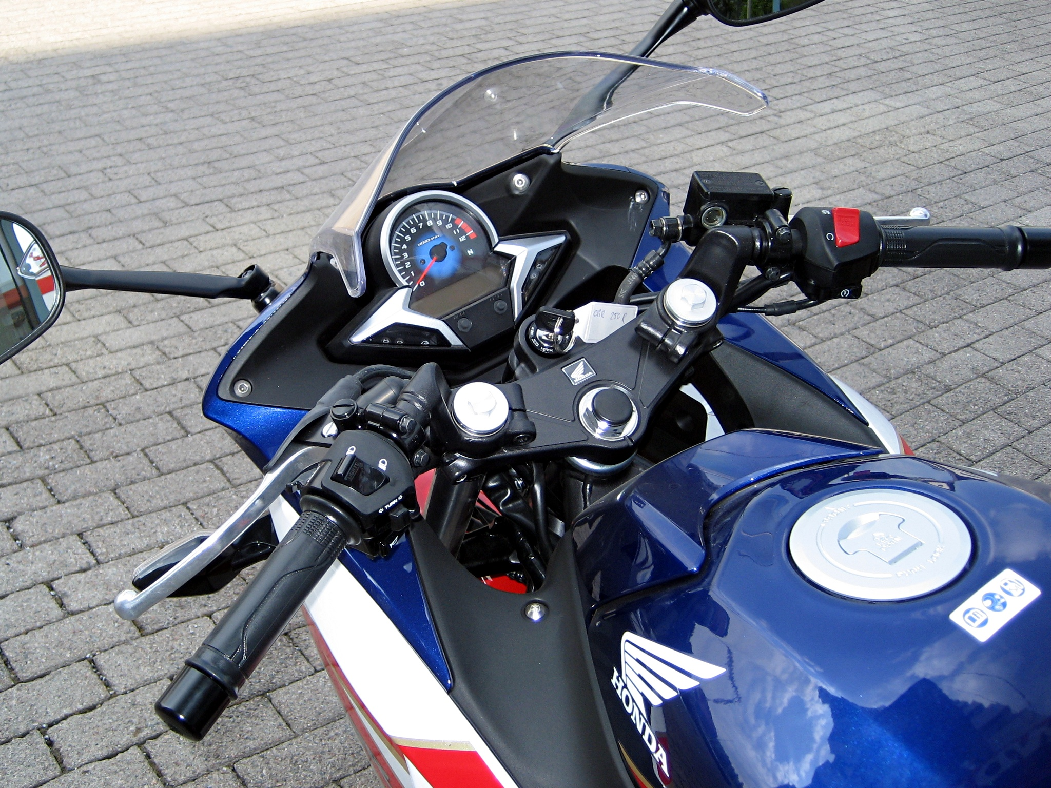 Honda CBR250R motorcycle cockpit. Year 2011.